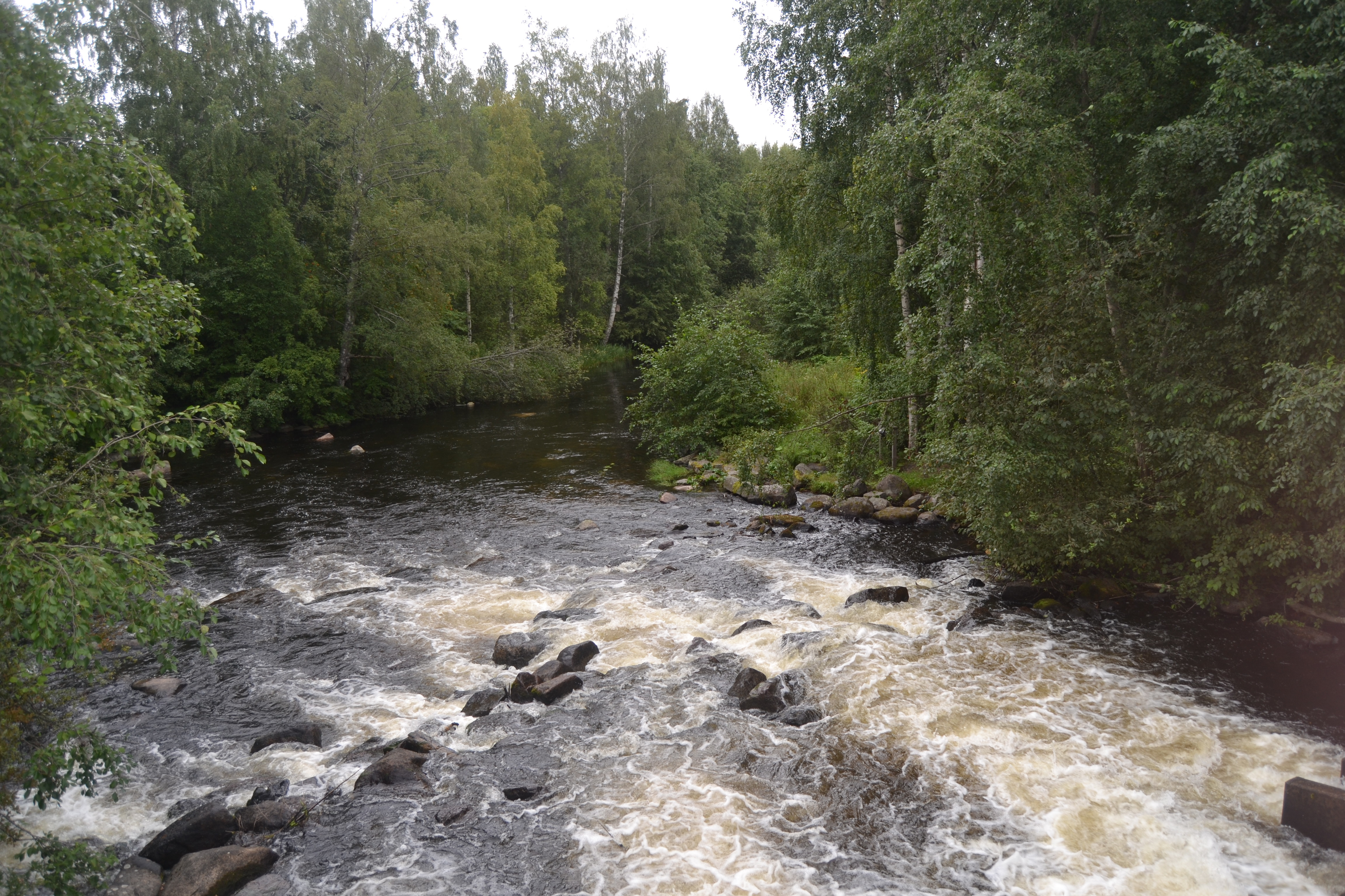 Muuratjoki river in Muurame, Finland